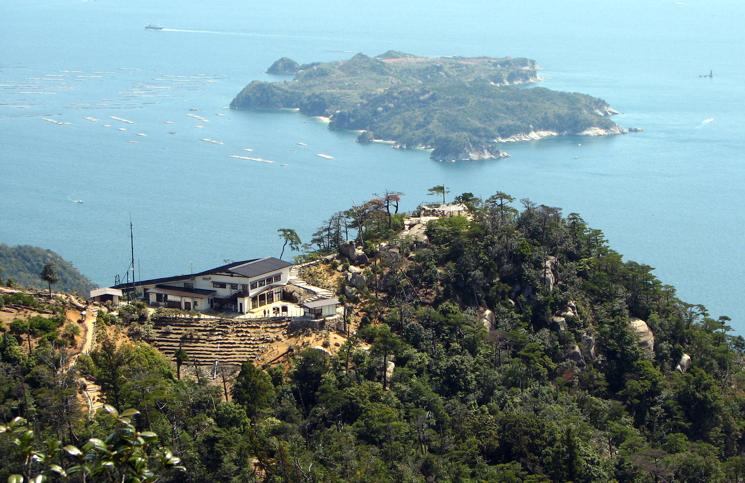 Miyajima Ropeway Station, Mount Misen, Miyajima Island, Hiroshima Prefecture, Japan